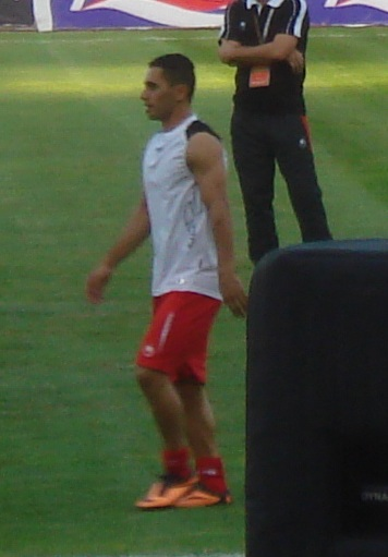 Omid Alishah, Iranian footballer at Persepolis F.C. training